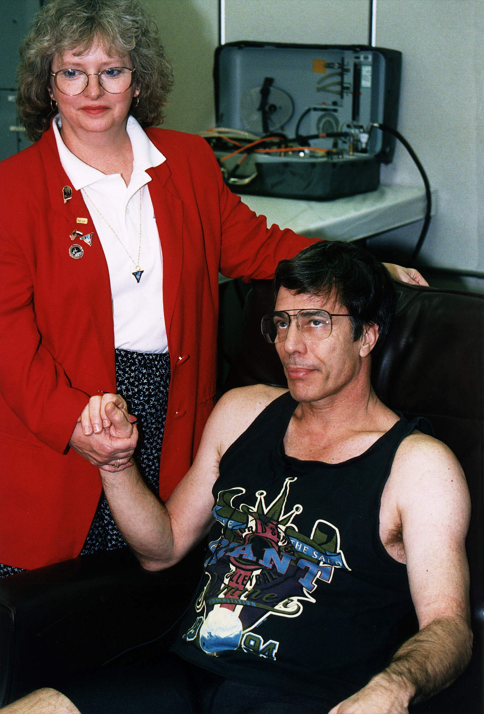 U. S. astronaut John E. Blaha and his wife, Brenda, hold hands in the crew quarters at KSC after he answered questions about his four-month stay aboard the Russian Mir space station. Blaha returned to Earth earlier today aboard the Space Shuttle orbiter Atlantis when it touched down at 9:22:44 a.m. EST Jan. 22 on Runway 33 of KSCs Shuttle Landing Facility at the conclusion of the STS-81 mission. Blaha and the other five returning STS-81 crew members are spending the night here in the Operations and Checkout Building before returning to Johnson Space Center in Houston tomorrow morning. Blaha will undergo a two-week series of medical tests to help determine the physiological effects of his long-duration mission. (Photo Release Date: 1/22/97)